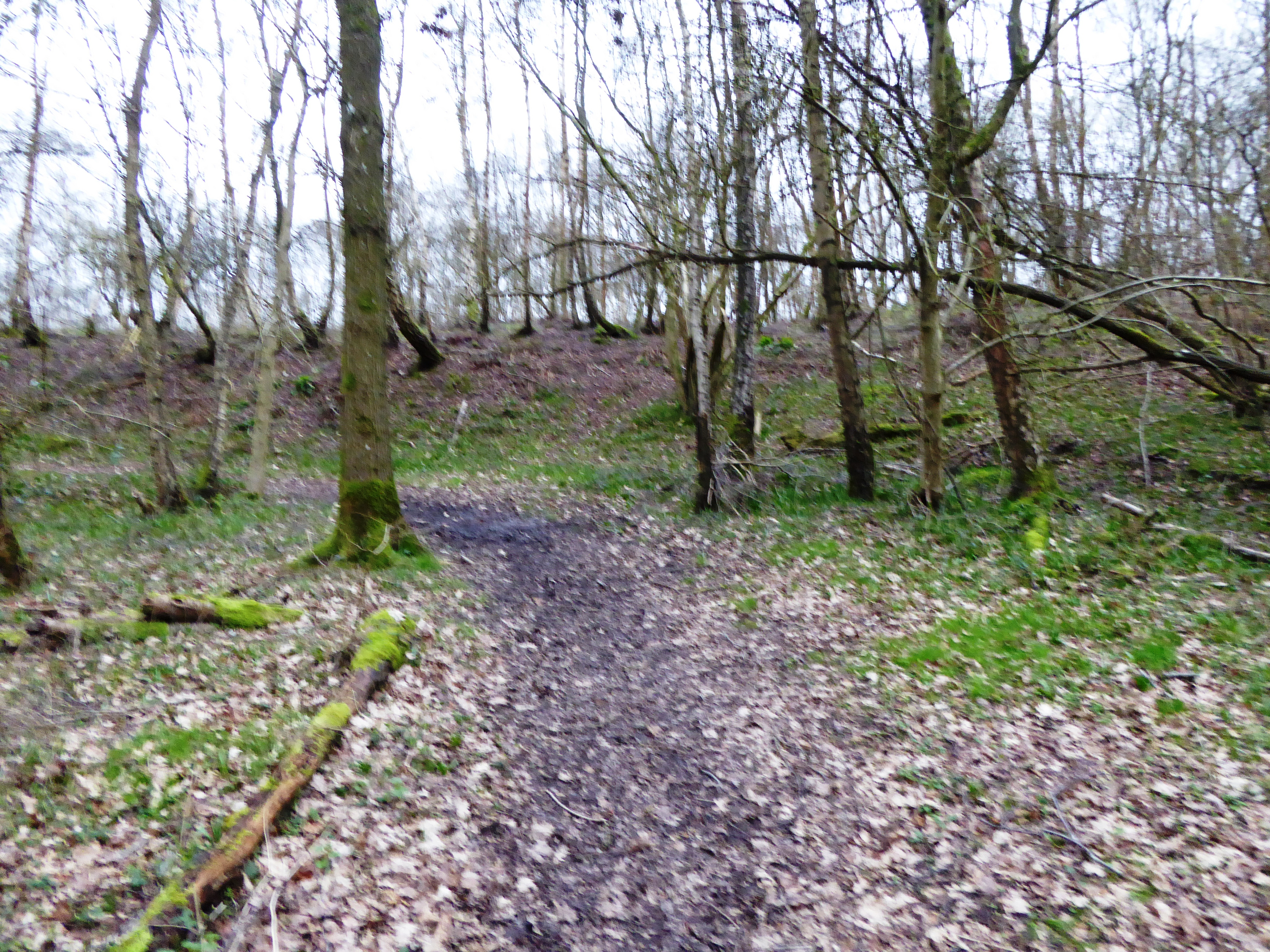 Bowdown Woods is a nature reserve south of Thatcham in Berkshire. It is managed by the Berkshire, Buckinghamshire and Oxfordshire Wildlife Trust. It is part of the Bowdown and Chamberhouse Woods Site of Special Scientific Interest.